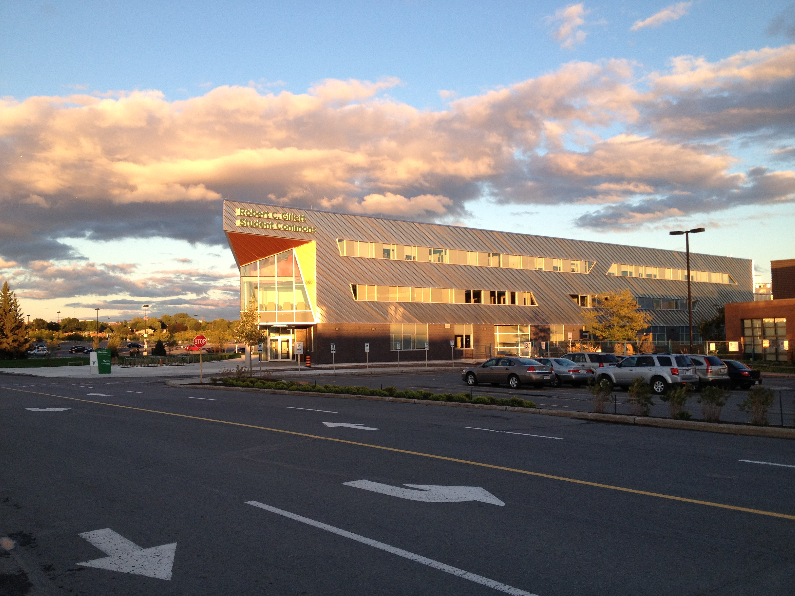 The new Robert C. Gillett Student Commons at Algonquin College